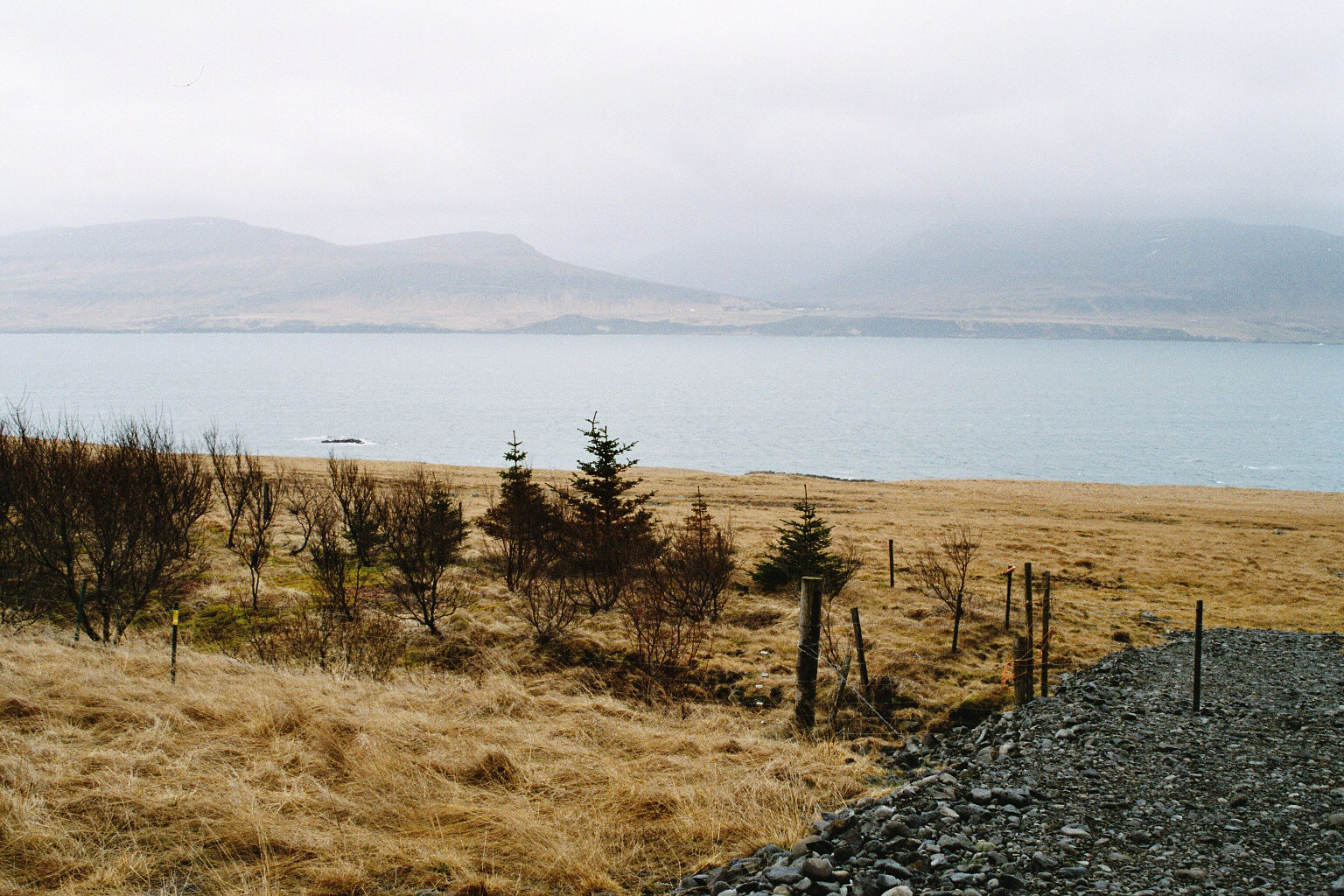 Hvalfjörður, Iceland, GNU-FDL I took the phot my-self in april 2004, no other copyrights involved. It shows the Hvalfjörður, Iceland, from the Akranes side. Reykholt 11:43, 25 May 2004 (UTC)